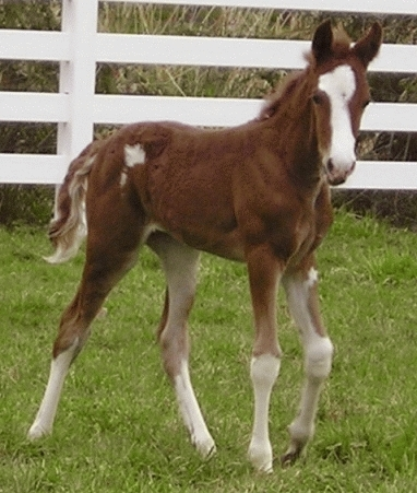 Photo of Panache Sorceress was taken and is owned by Panache Hackney Horse Farm.